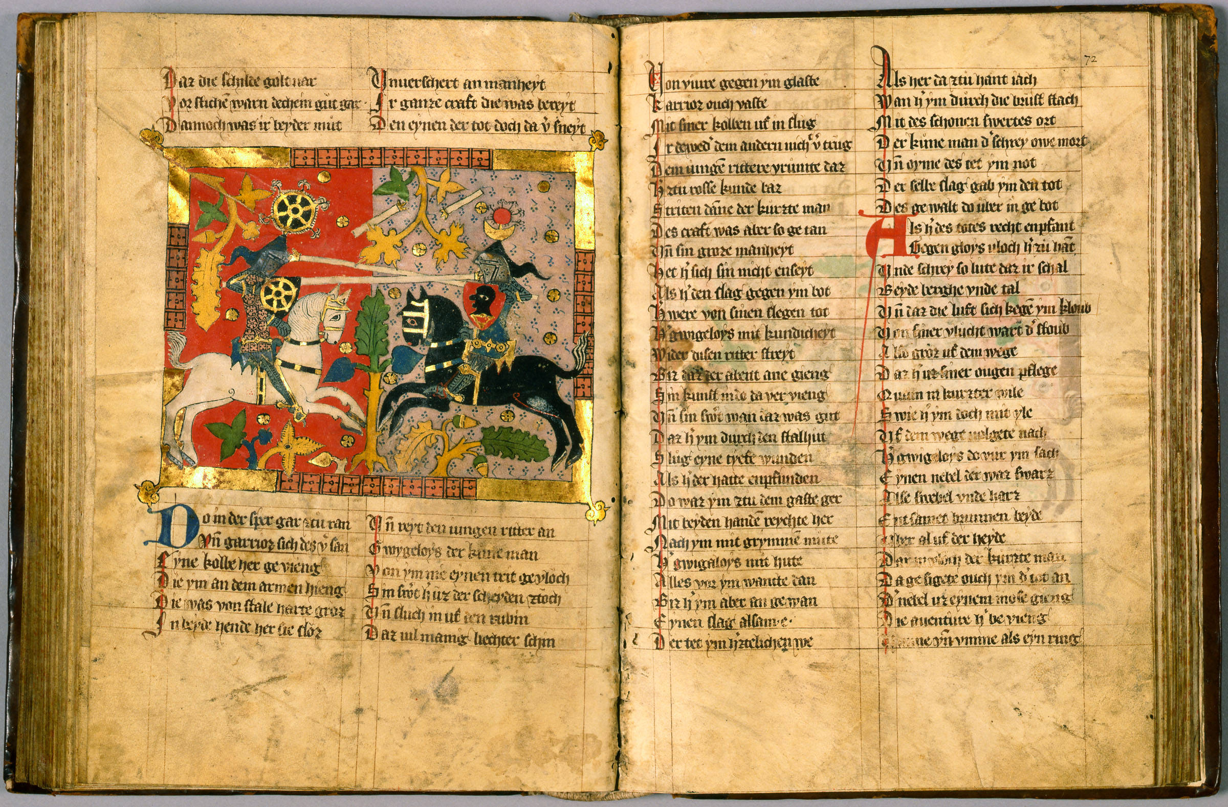 Wigalois von Wirnt von Grafenberg; Handwriting from 1337 scanned at Leiden University Library